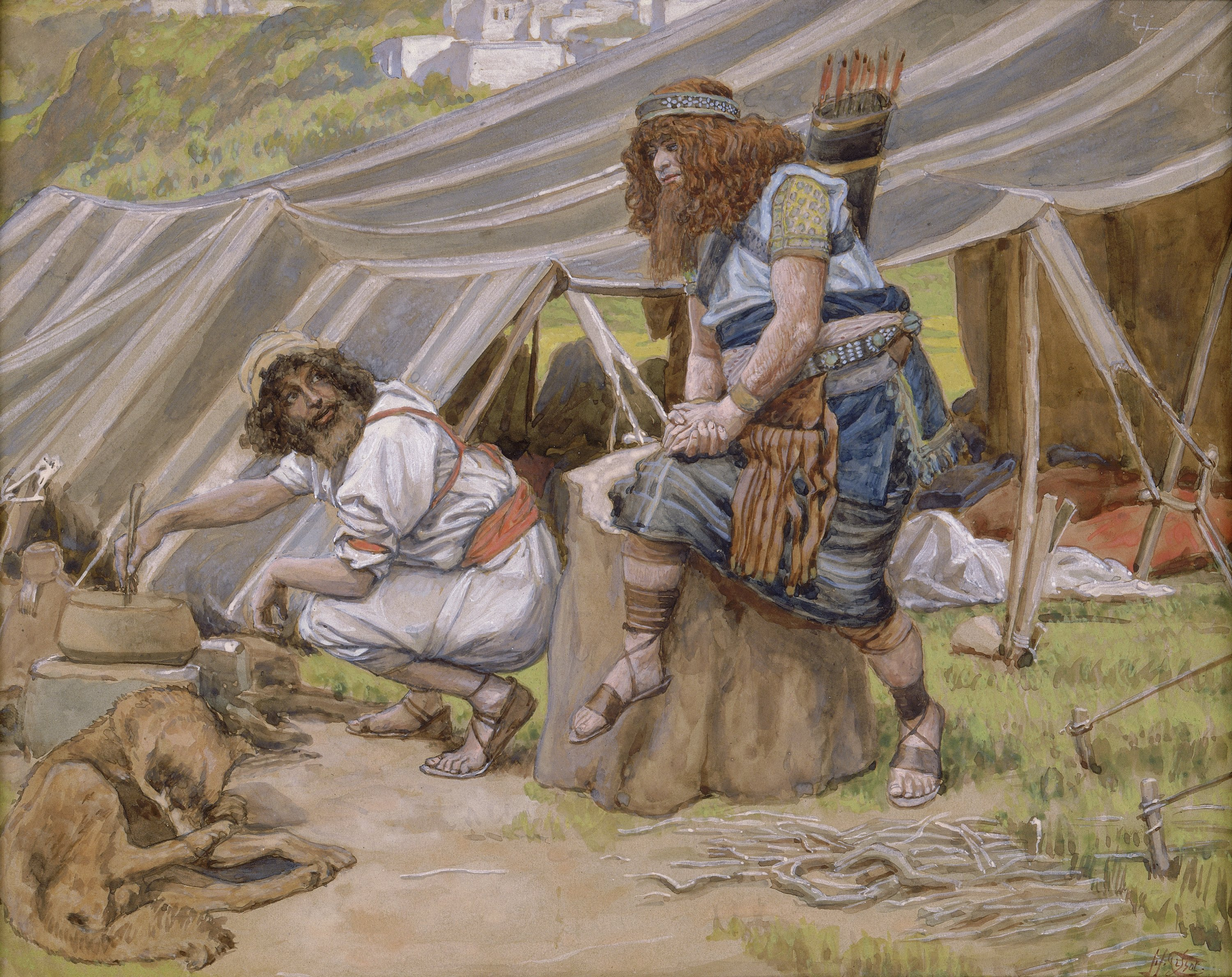 The Mess of Pottage, c. 1896-1902, by James Jacques Joseph Tissot (French, 1836-1902), gouache on board, 8 3/8 x 10 1/2 in. (21.3 x 26.8 cm), at the Jewish Museum, New York